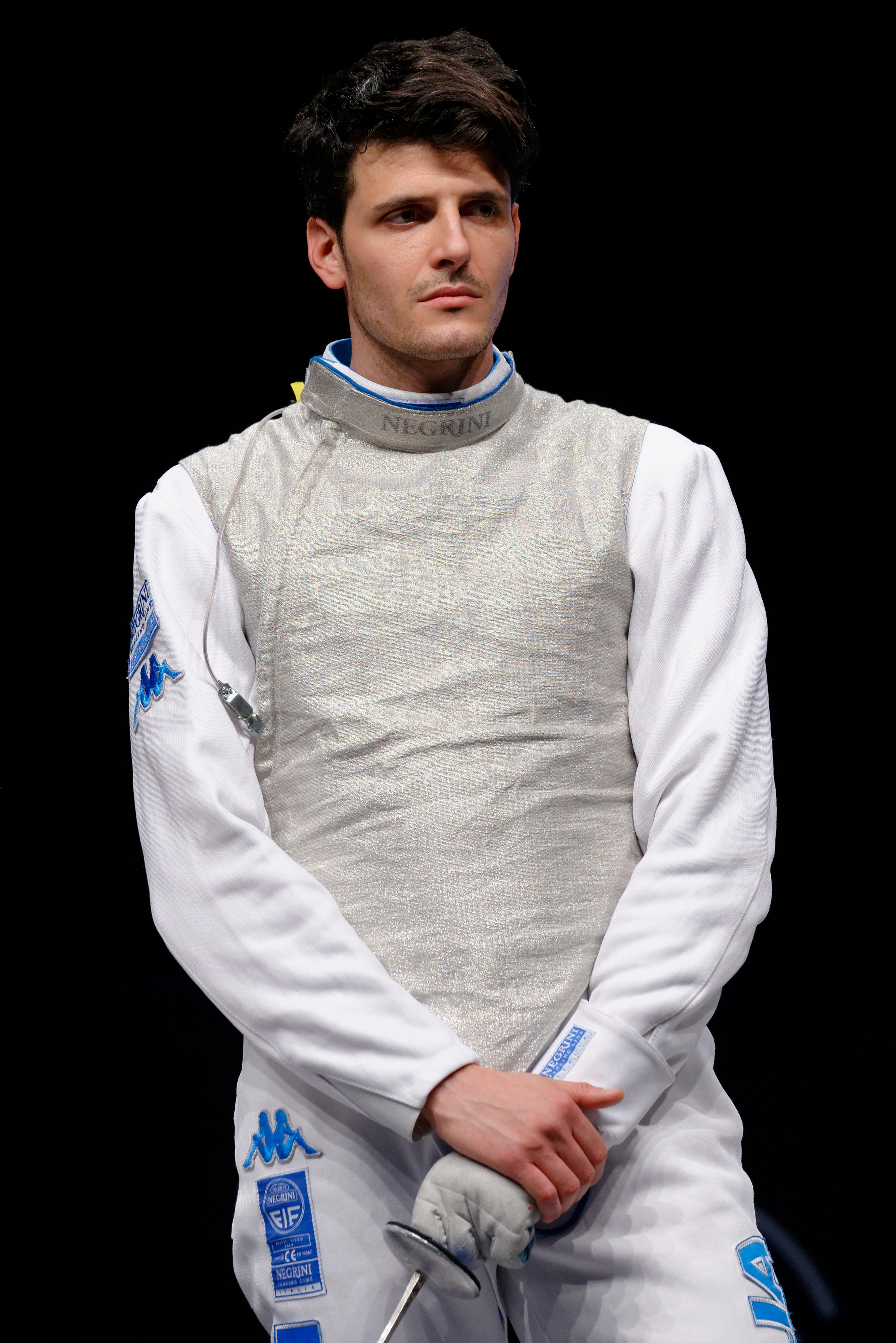 Andrea Cassarà of Italy is presented to the crowd during the opening of the 2014 Master de Fleuret Melun Val de Seine.